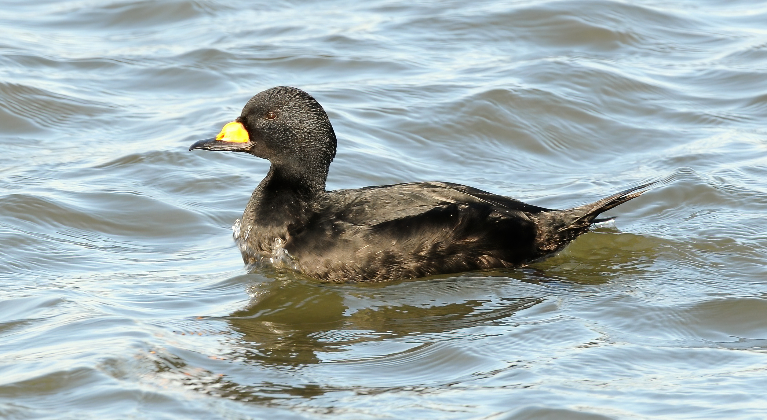 Black Scoter, Barnegat Inlet N.J.